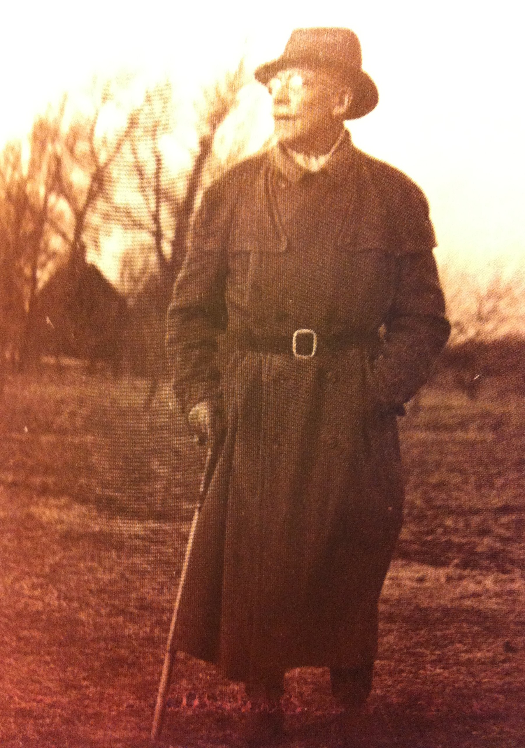 The Swedish artist Jonas Åkesson (1879-1970), about 1960.